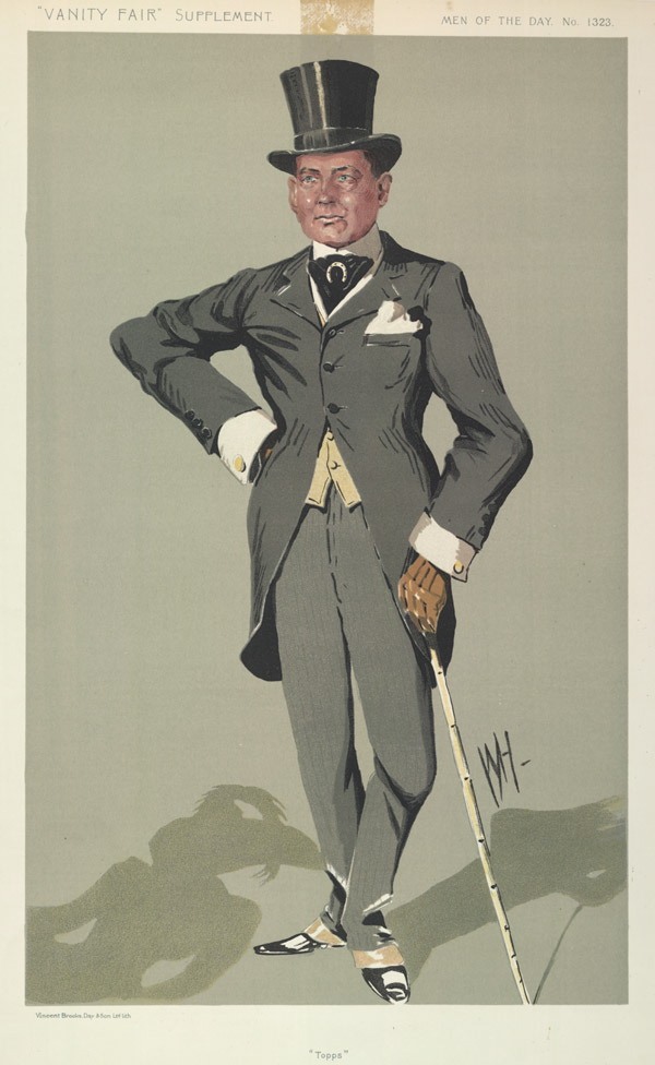 Men of the Day No.1323: Caricature of Sir Charles Edward Cradock-Hartopp Bt (1858–1929). Caption reads: "Topps"